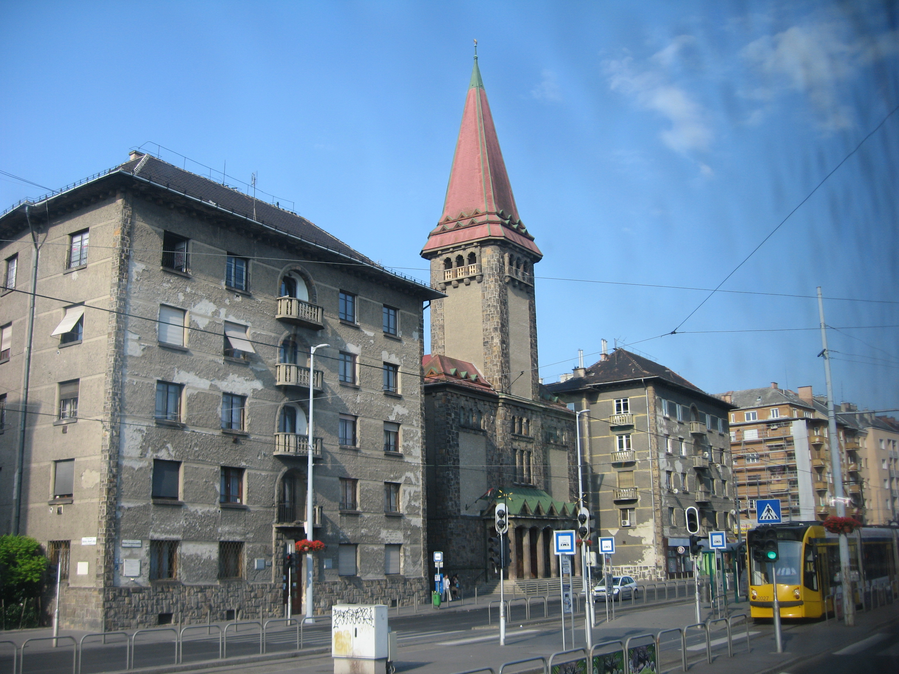 Reformed church in Kelenföld